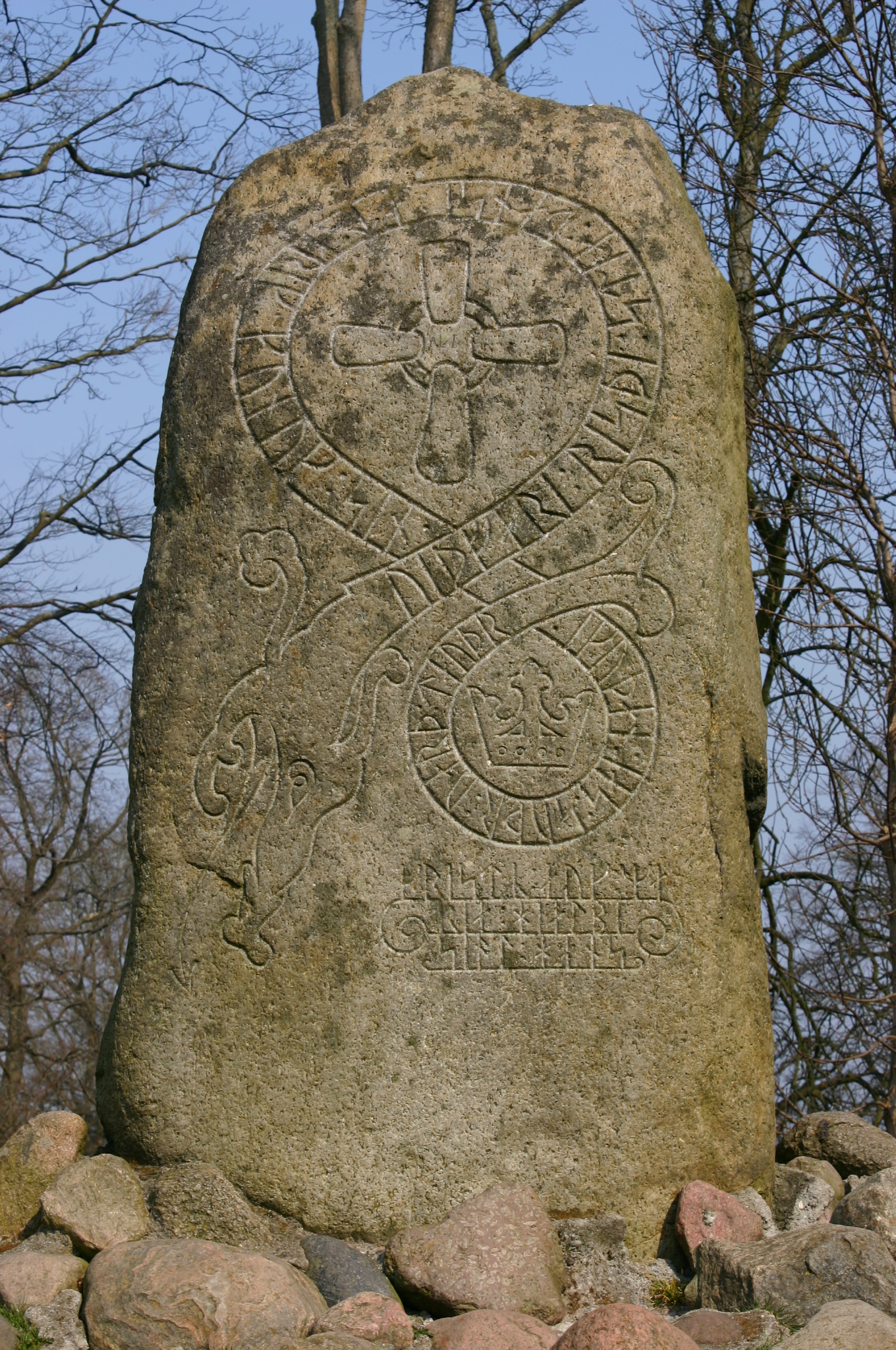 Memorial stone for the Danish king Erik Ejegod, Borgvold, Viborg, Denmark